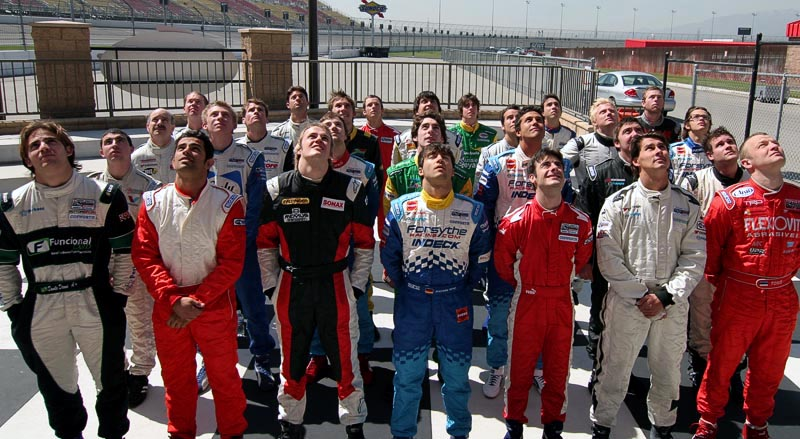 2006 Champ Car Atlantic Championship Drivers pose for group photo Pre Season Testing California Speedway I took this photo / Attribute to : 'DECHUSA Motorsport Photography+